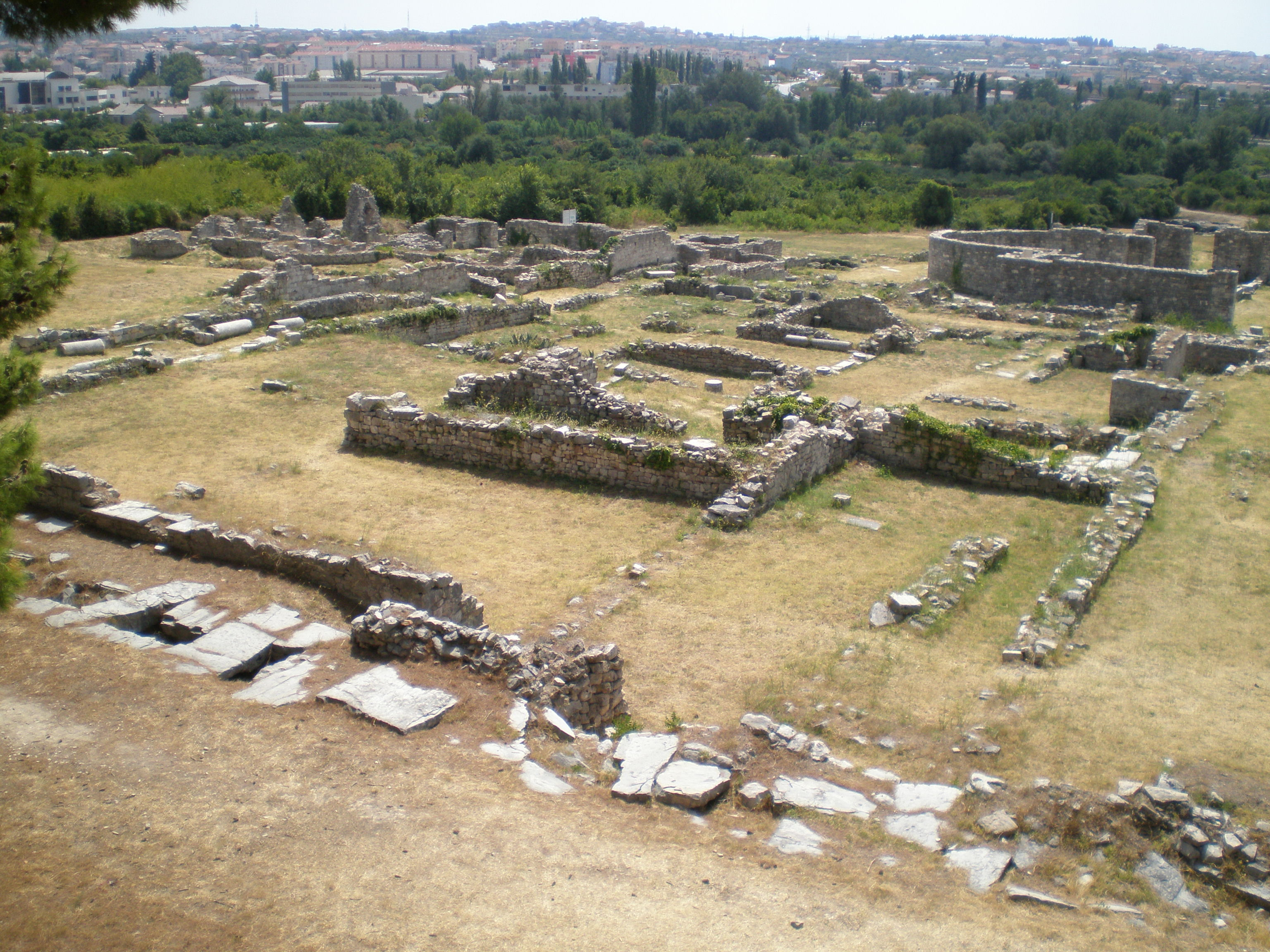 Solin, Croatia